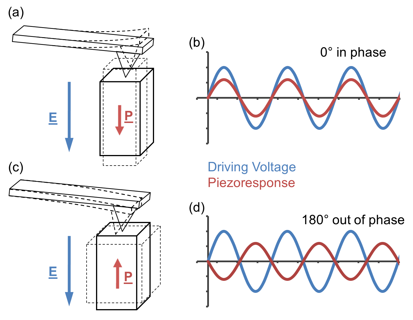 Diagram showing cantilever movements from mechanical deformation of piezoelectric domains